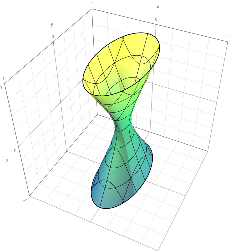 A one-sheeted hyperboloid. Made with Mathematica.